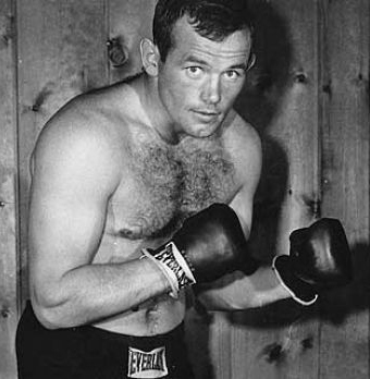 The World Champion Ingemar Johansson poses for the camera.